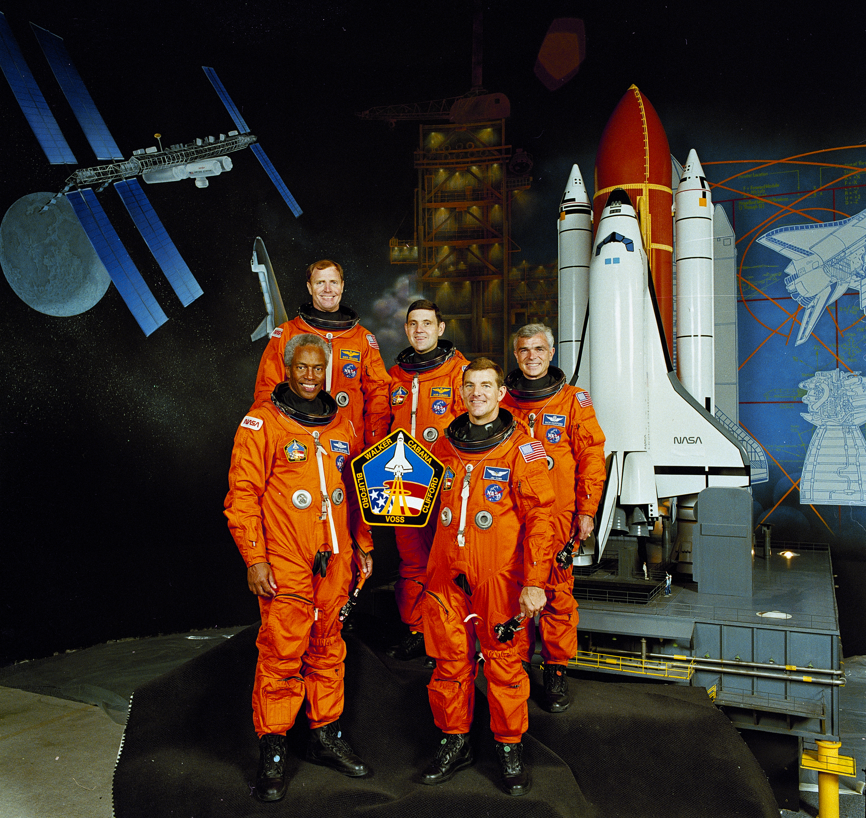 The STS-53 crew portrait included astronauts (front left to right): Guion S. Bluford, and James S. Voss, mission specialists. On the back row, left to right, are David M. Walker, commander; Robert D. Cabana, Pilot; and Michael R. (Rick) Clifford, mission specialist. The crew launched aboard the Space Shuttle Discovery on December 2, 1992 at 8:24:00 am (EST). This mission marked the final classified shuttle flight for the Department of Defense (DOD).